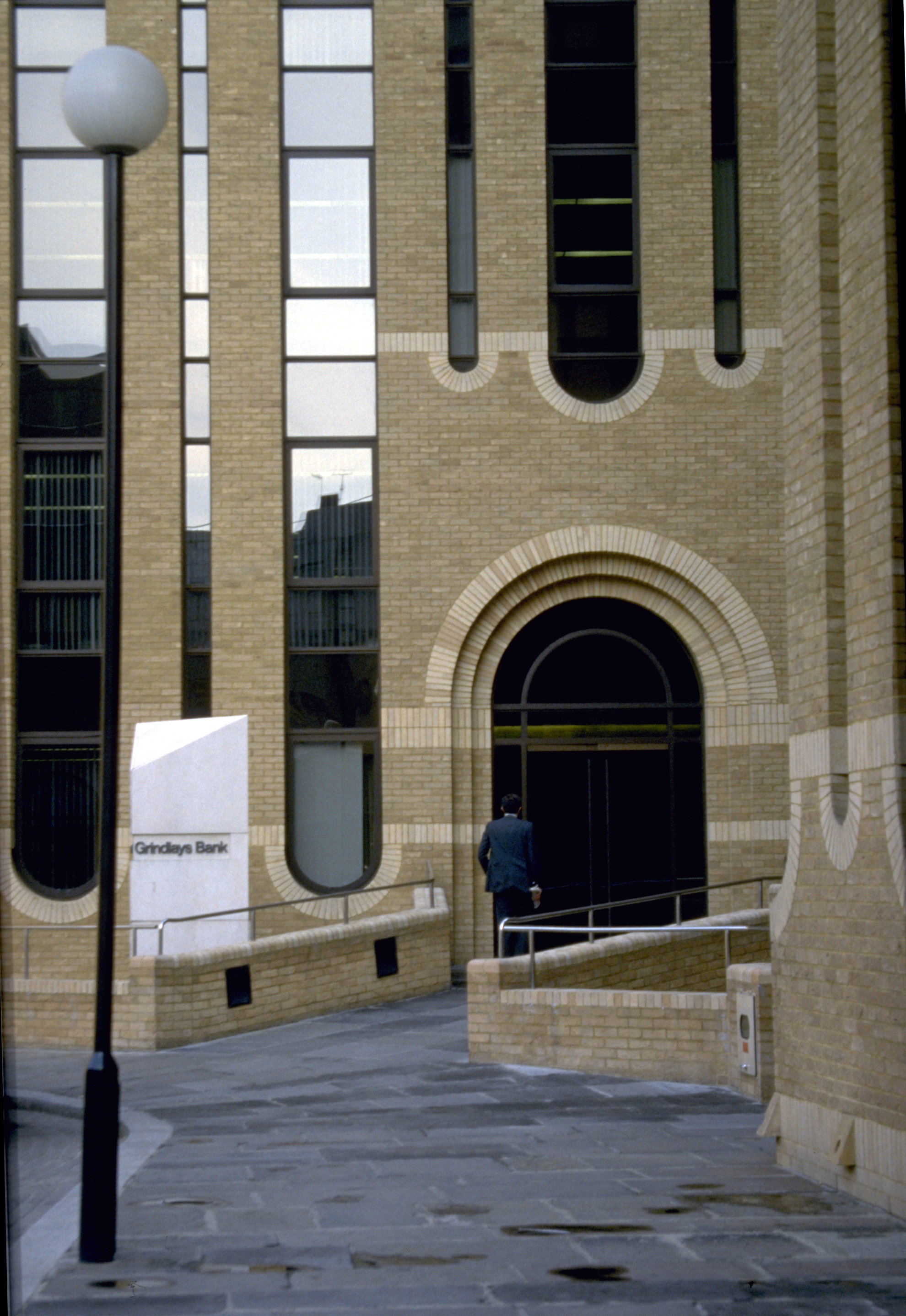 Minerva House is on the south bank of the Thames alongside Southwark Cathedral. At the time of this photograph in c1986 it was the corporate headquarters of Grindlays Bank.